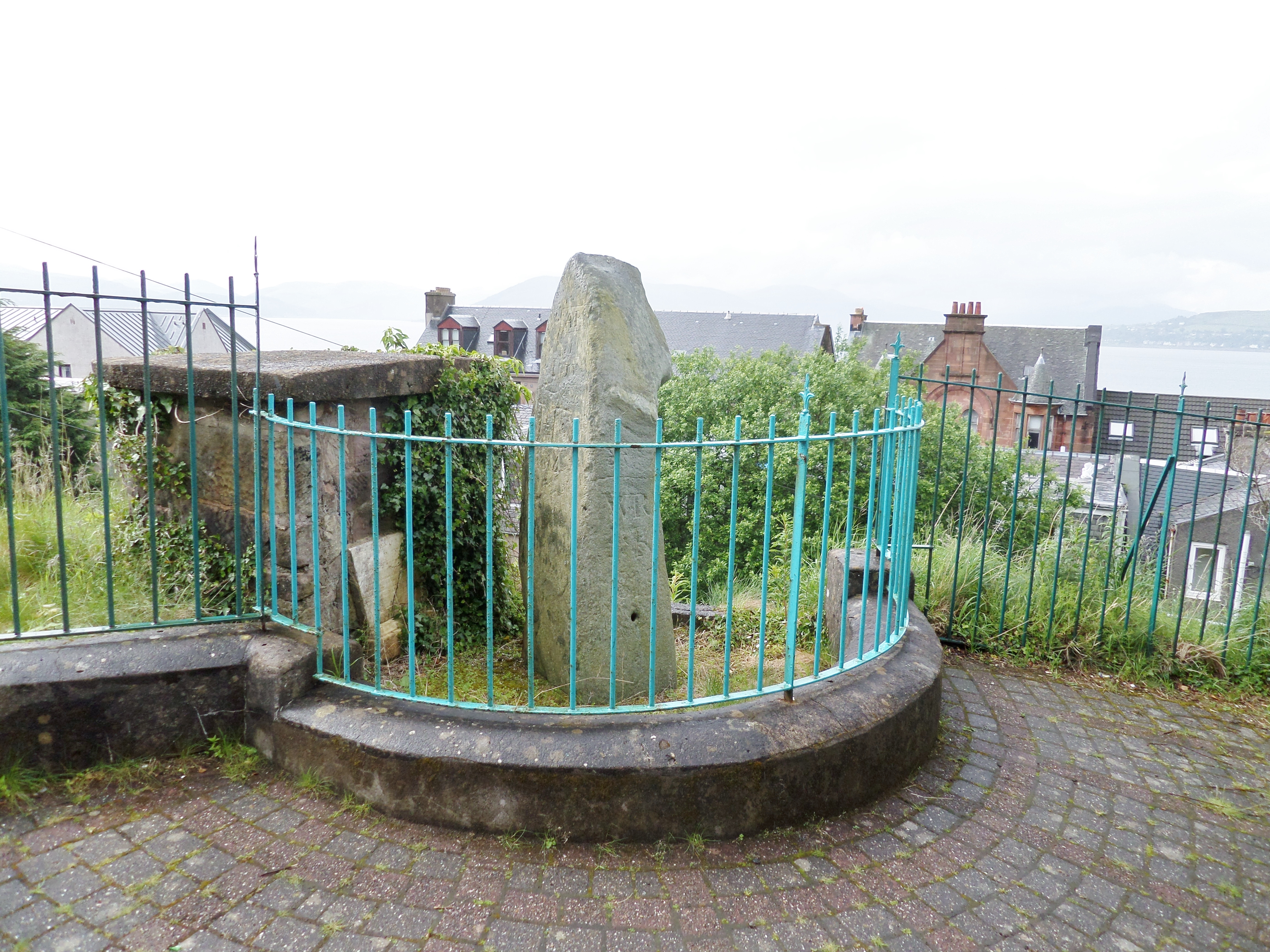 The Granny Kempock Stone, Gourock, Inverclyde. A possible menhir.